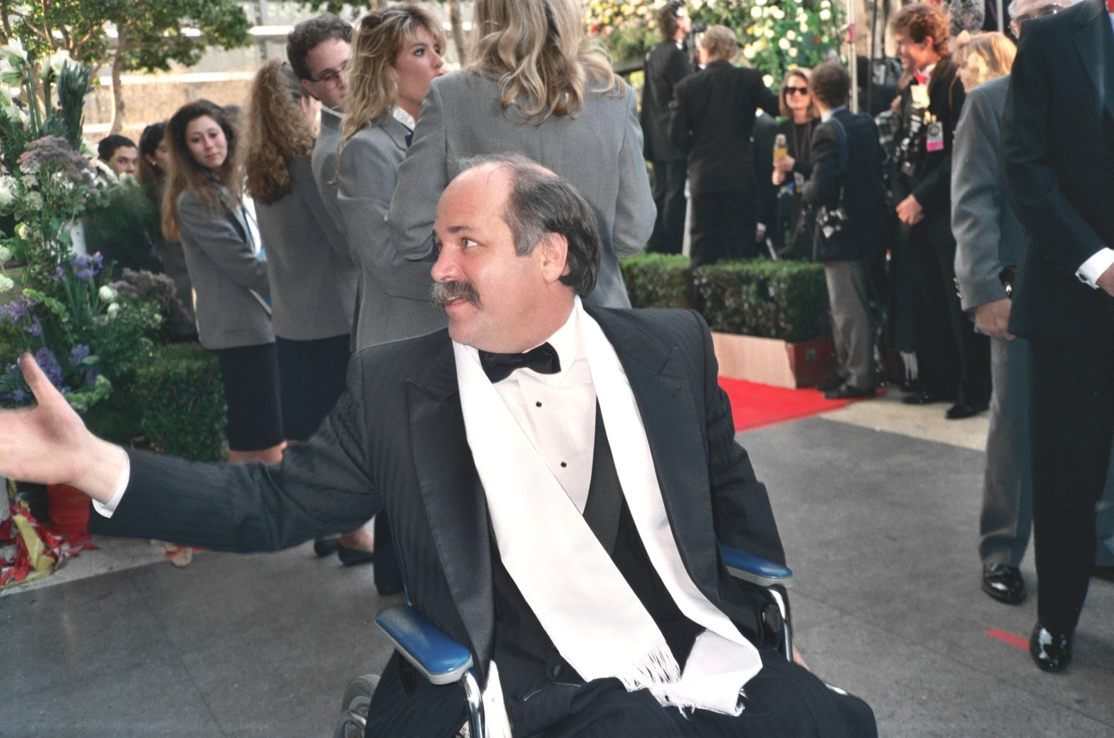 1990 Academy Awards NOTE: Permission granted to copy, publish, broadcast or post any of my photos, but please credit "photo by Alan Light" if you can. Thanks. Scanned from the original 35MM film negative.